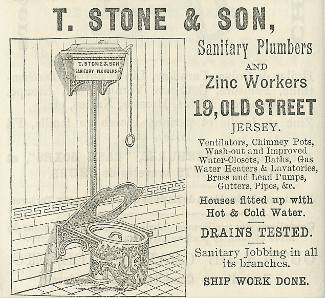 Advertisement from almanac of La Chronique de Jersey 1892 (including picture of old toilet and horse-drawn carriage). Detail.